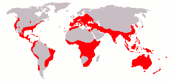 Black rat (rattus rattus) population area.